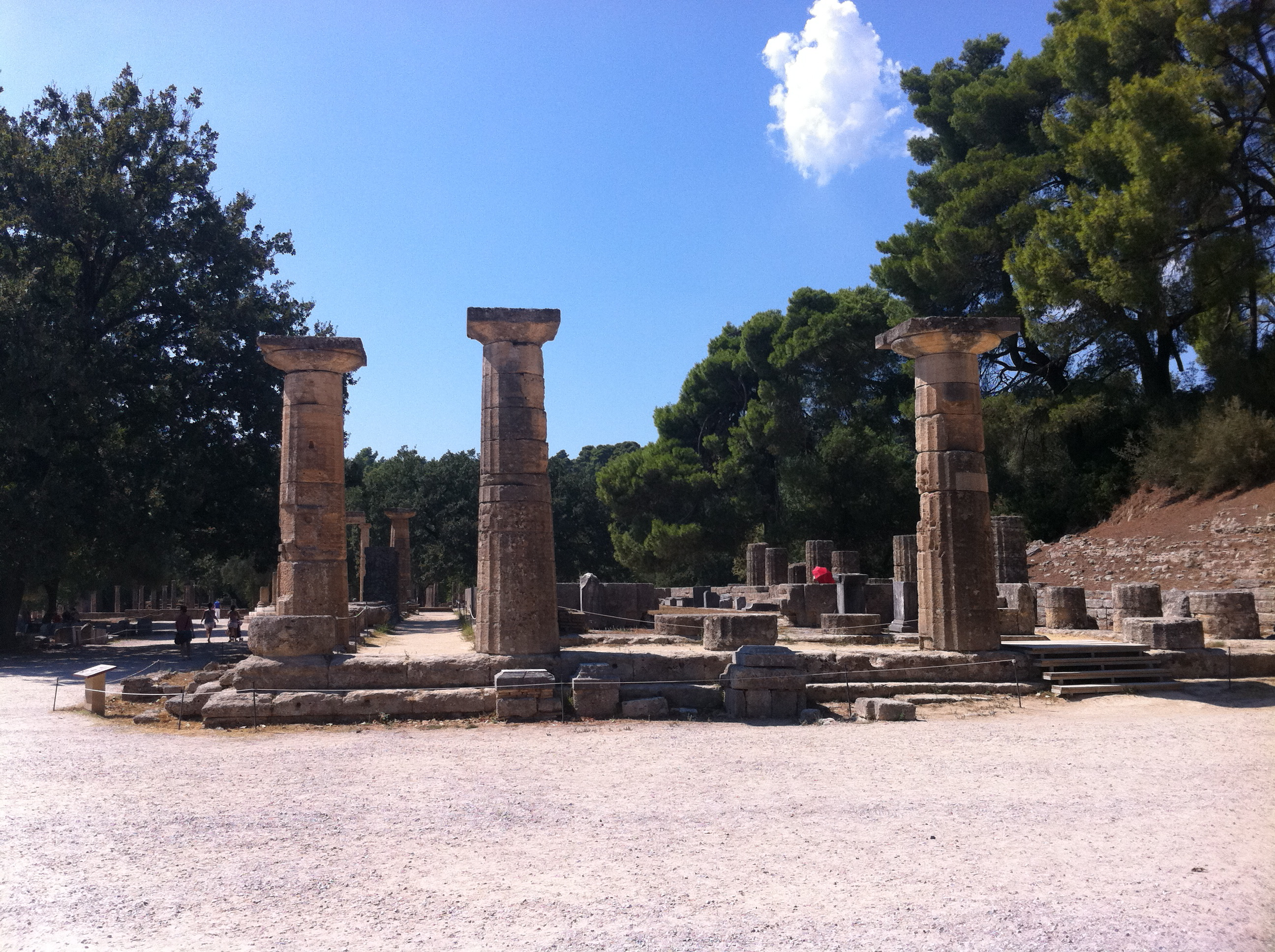 Olympia, Greece